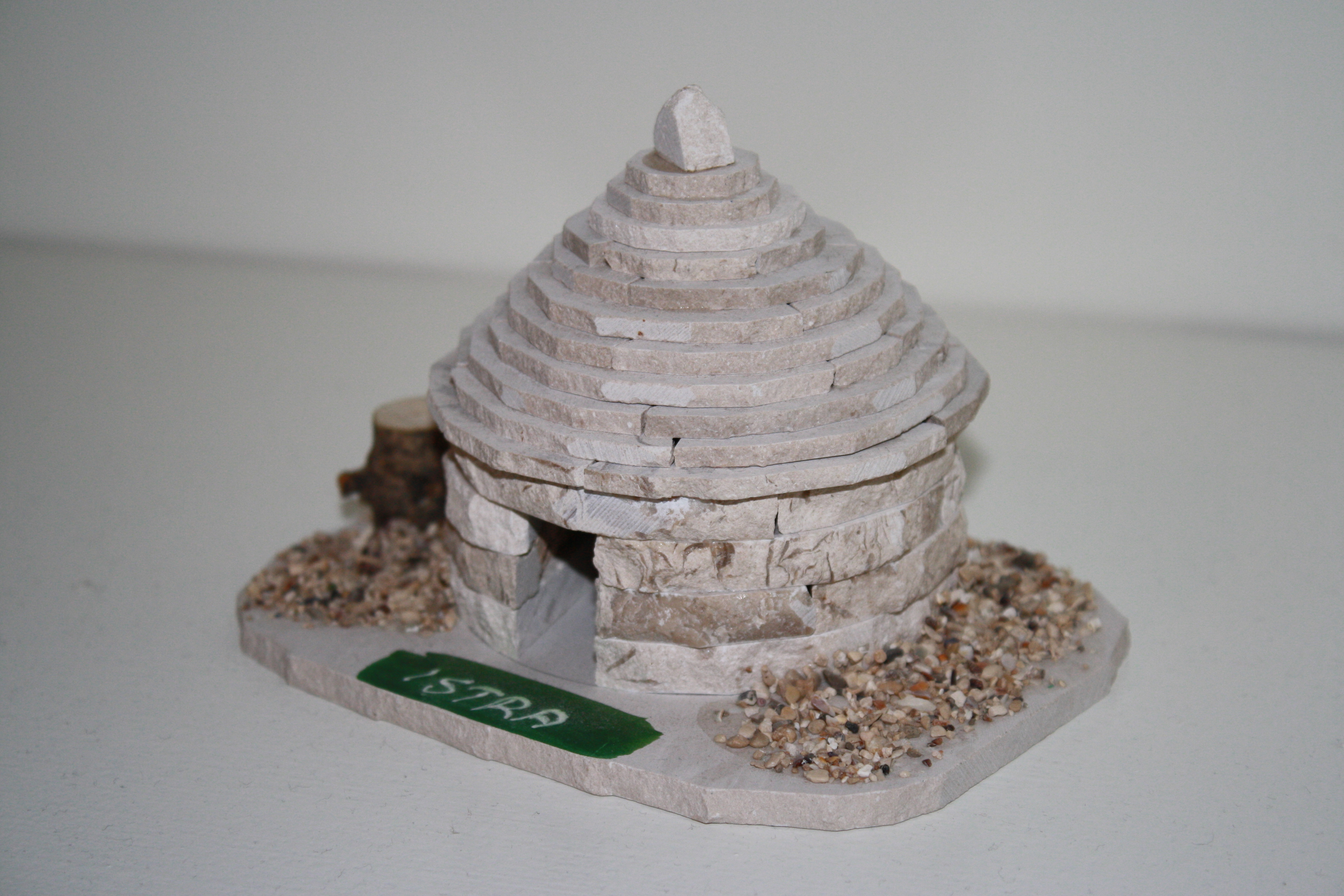 Mali kažun - Miniature Istrian dry stone hut or kažun